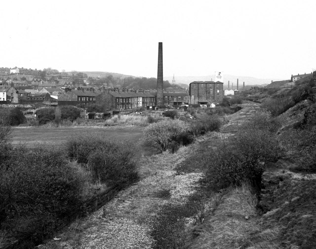 The next train left some time ago: Stacksteads, Lancashire This shows the trackbed of the railway along the Rossendale Valley, looking towards Bacup. Already in 1976 the cotton industry, which had sustained the valley for the last two centuries, was played out. So, of course, the good Dr Beeching helped the people of this community by removing their rail link to Bury and Manchester, where some of them might have been able to find employment.